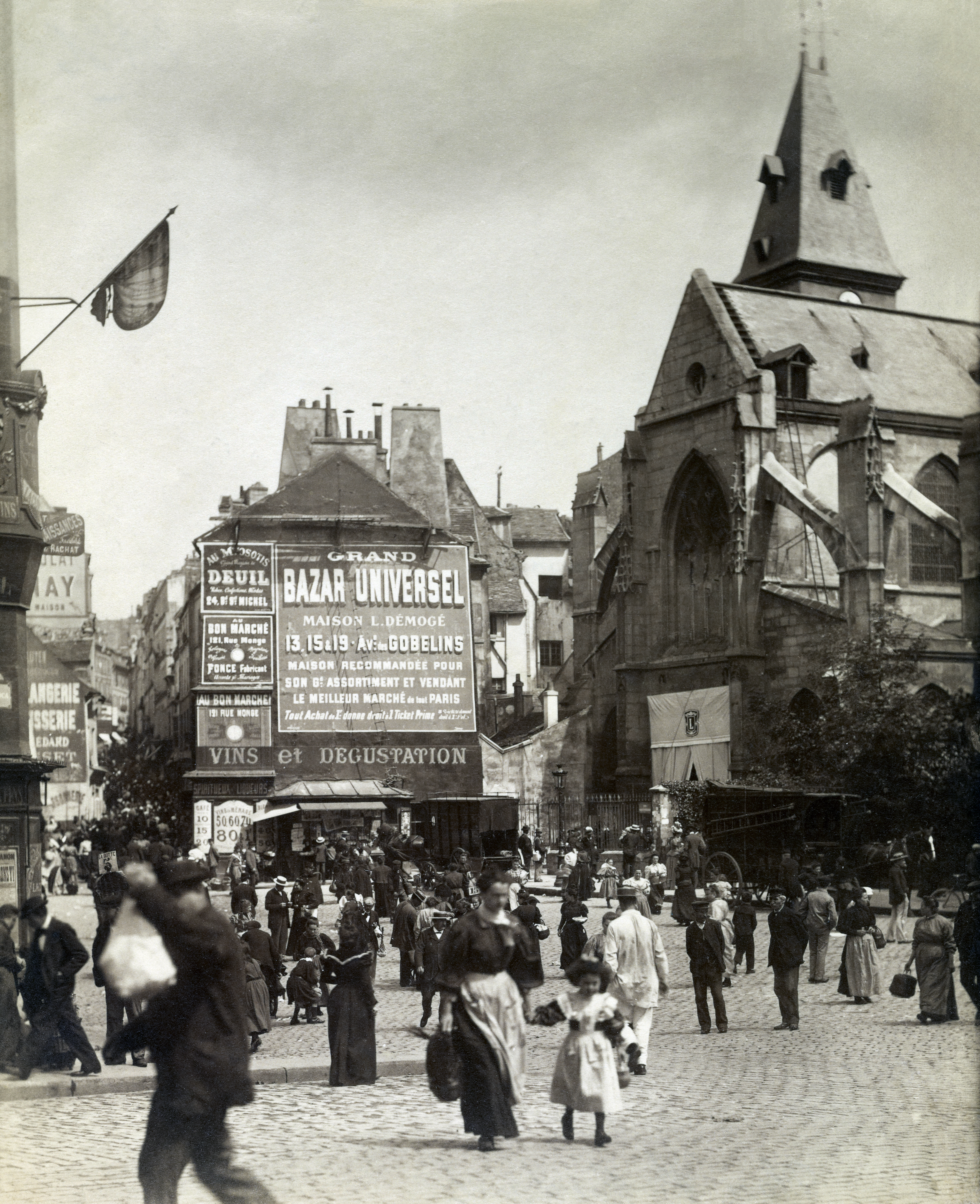 A busy outdoor market in front of the church of Saint-Médard, built in the 1100s, was a natural subject for Eugène Atget, who often photographed commercial establishments. He shot this photograph close to noon, past the height of market activity. After choosing from the "largest assortment of goods in Paris," the market-goers are dispersing, returning to their apartments or perhaps to a restaurant for lunch.